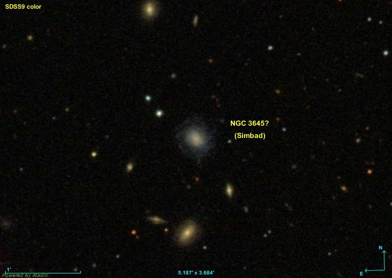 Image created using the Aladin Sky Atlas software from the Strasbourg Astronomical Data Center and SDSS (Sloan Digital Sky Survey) public data.